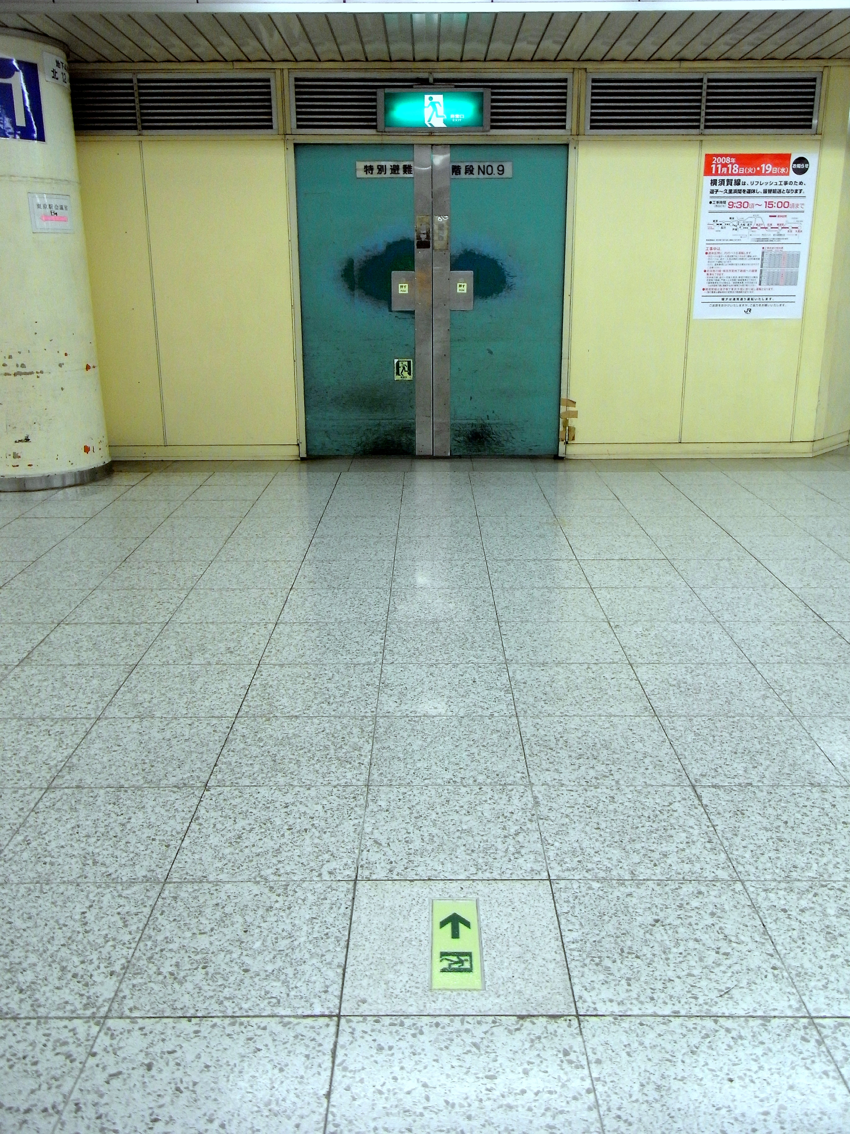 tokubetu hinan kaidan(Fire escape)in Tōkyō Station